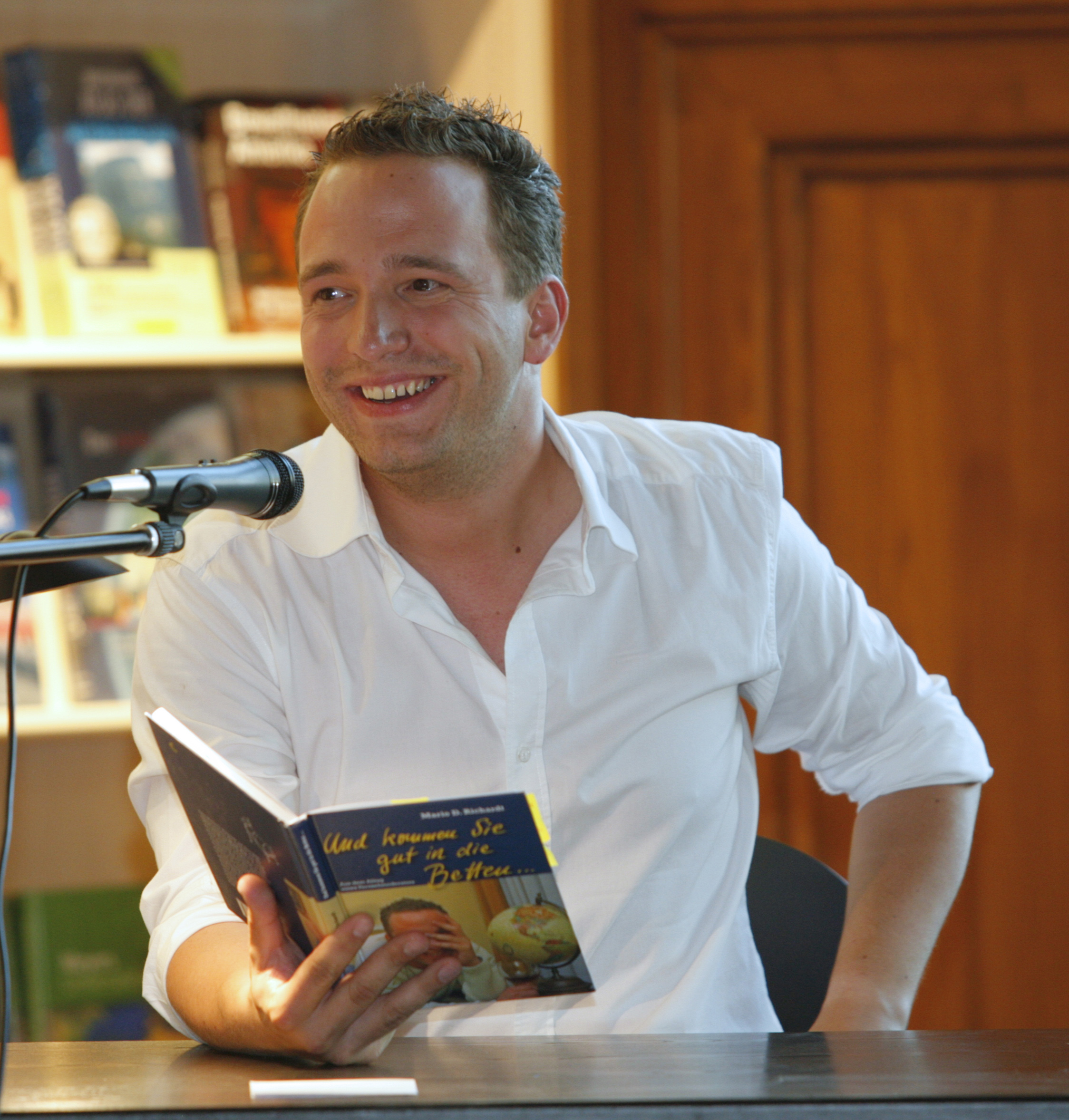 German TV presenter and author Mario D. Richardt at a reading in Leipzig